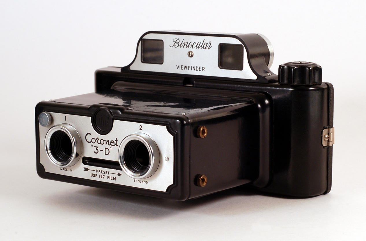 The Coronet 3-D is a stereo camera that was manufactured in England c1954. It's made of bakelite and takes 127 film. The little knob to the upper left of lens #1 allows that lens to be blocked in order to take single pictures (as opposed to stereo pairs). As you can see, this model has a binocular viewfinder, but there was another model (made of mottled plastic) with a single viewfinder.